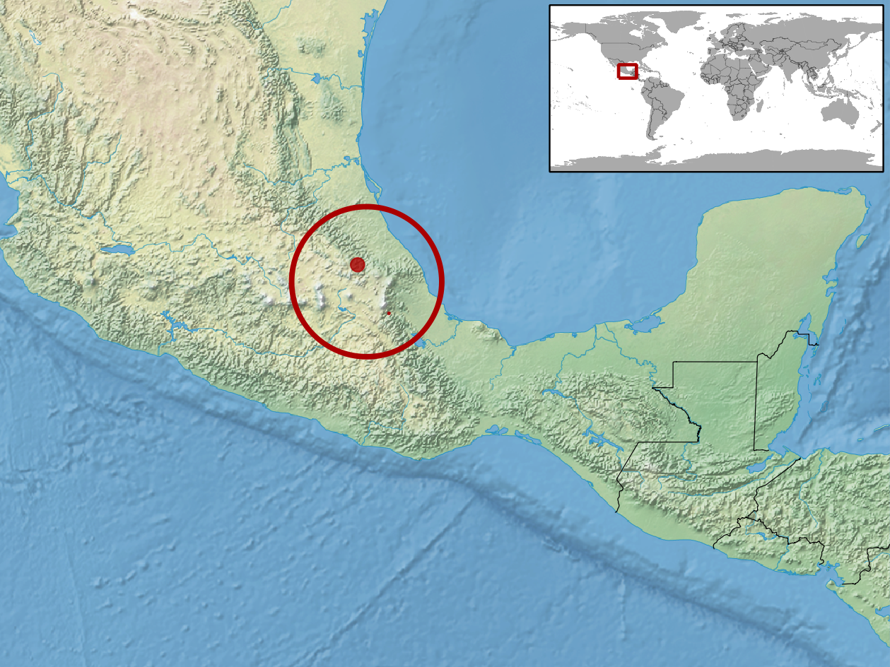 geographic distribution of Celestus legnotus syn Diploglossus legnotus (Native: Mexico)